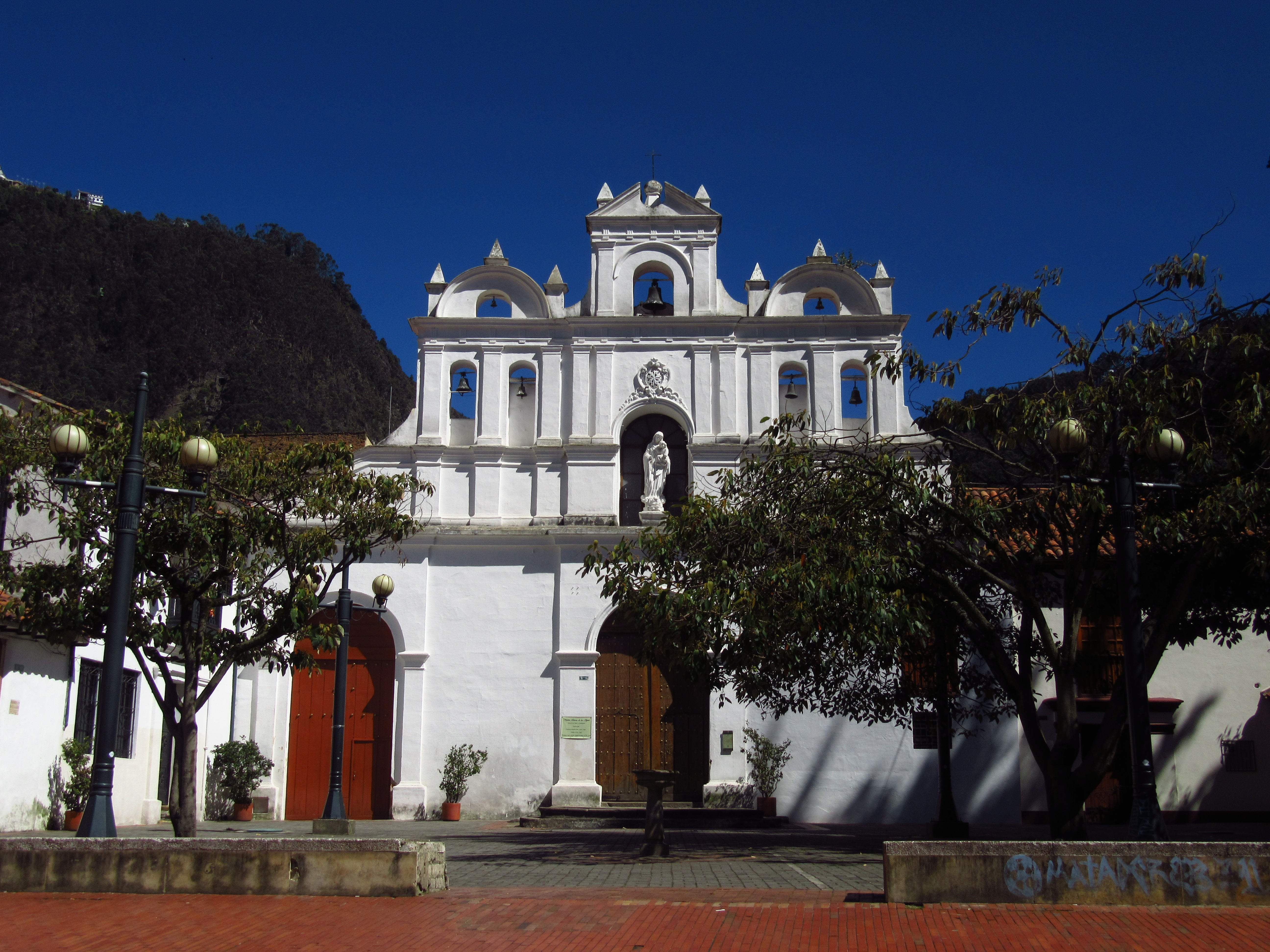 Bogotá